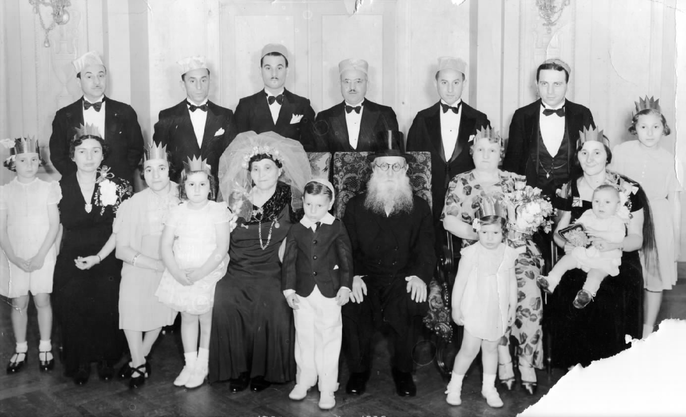 This is a photo I own, passed down from my grandparents (the main subject of this 50th Wedding Anniversary photo), to my father, to me. My grandparents and all their children, including my father, have passed away. The photo was a family possession, never copyrighted and never published.